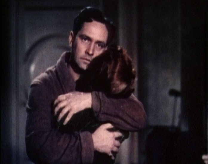 Cropped screenshot of Fredric March from the film A Star is Born.